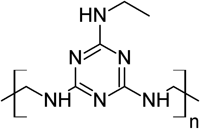 idealized representation of melamine resin